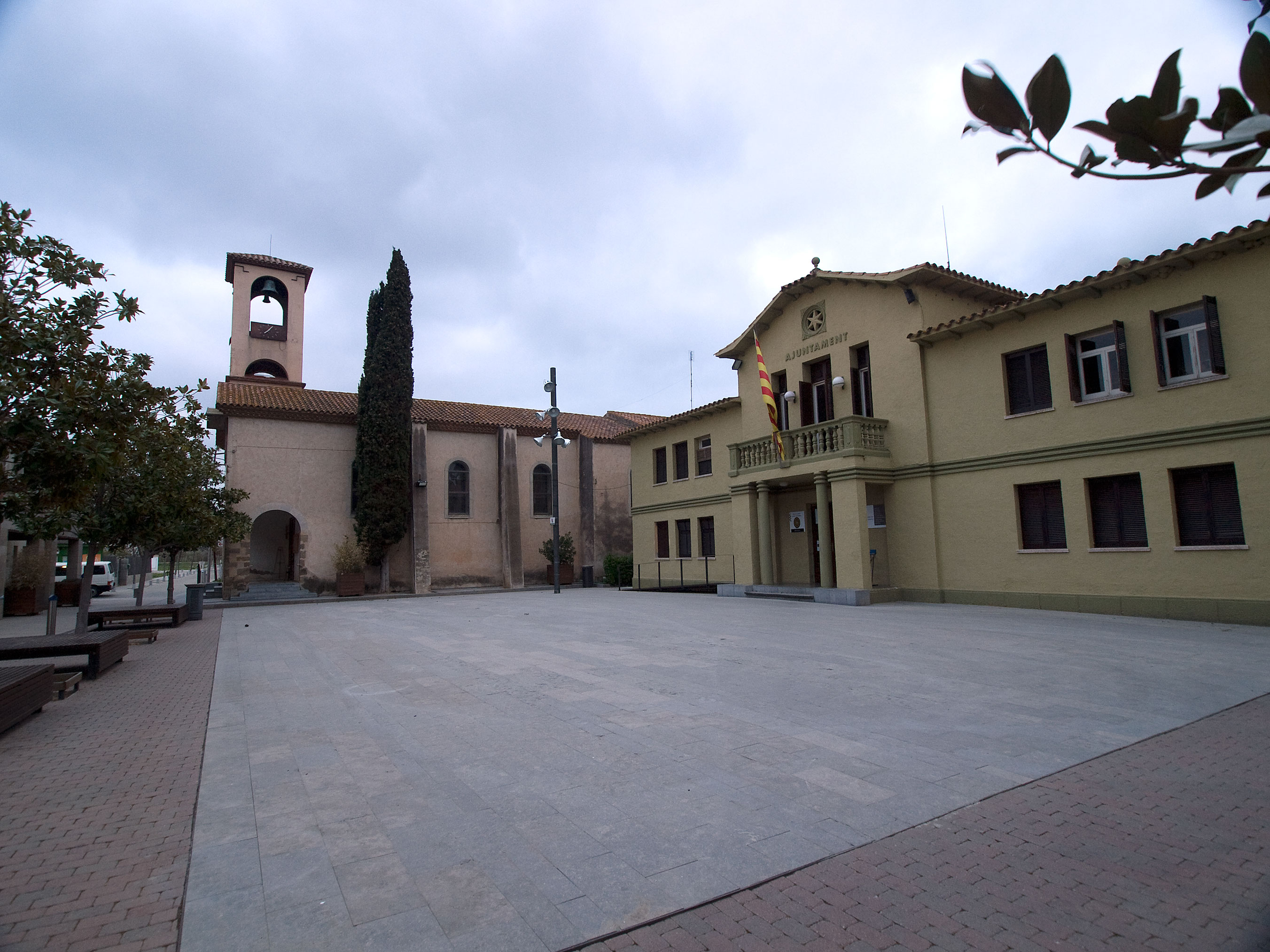 city council square of Santa Susanna (Catalonia, Spain)